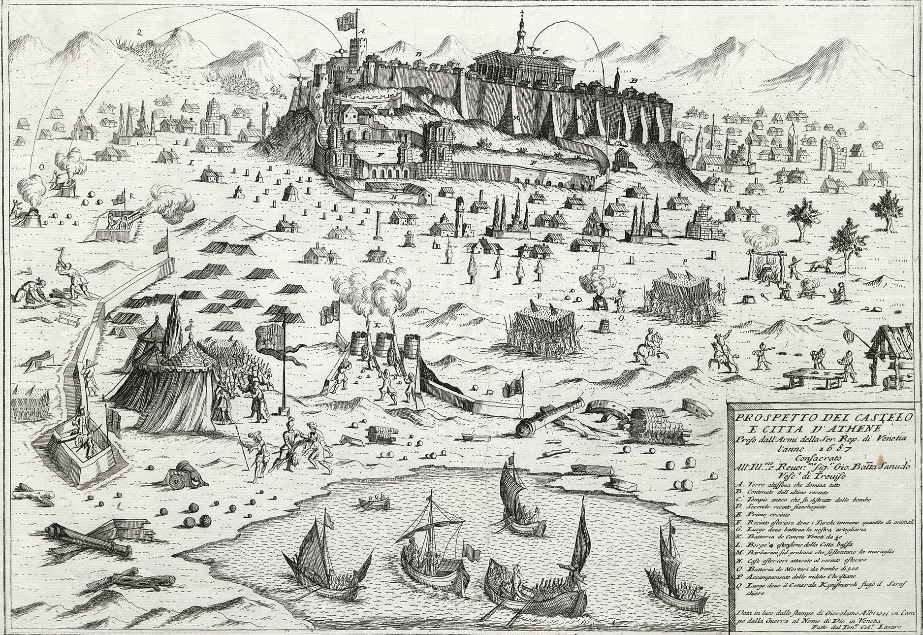 Depiction of the Venetian siege of the Acropolis of Athens in 1687, during the Turkish-Venetian War. The siege resulted in the destruction of a large part of the Parthenon, which the Turks used as an ammunition storage site.